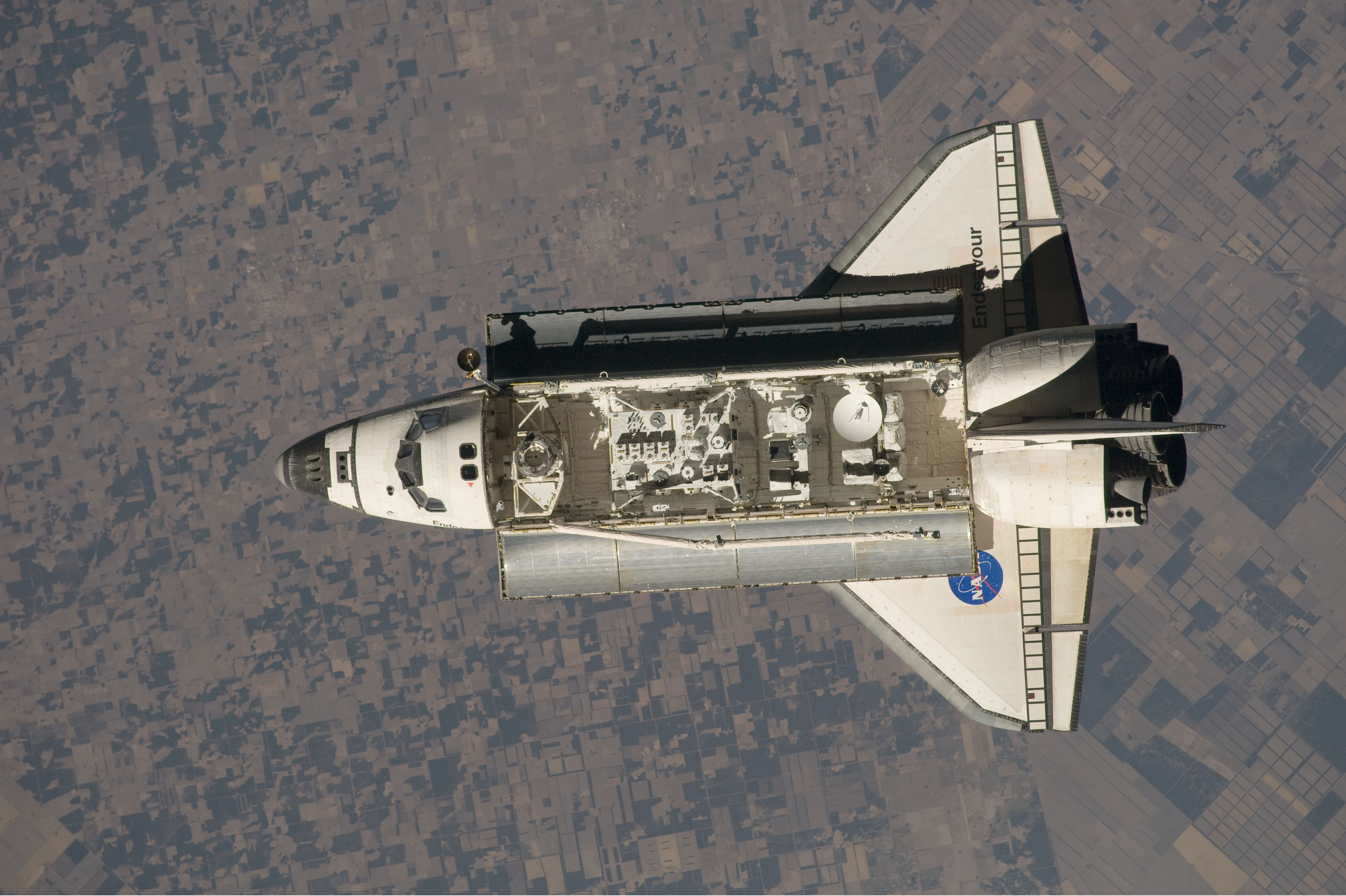 This view of the Space Shuttle Endeavour was one of a series provided by an Expedition 20 crewmember prior to and during a survey of the approaching vehicle before docking with the International Space Station. As part of the survey and part of every mission's activities, the STS-127 Endeavour crew performed a back-flip for the rendezvous pitch maneuver (RPM). Payload including JEF visible in the shuttle bay.